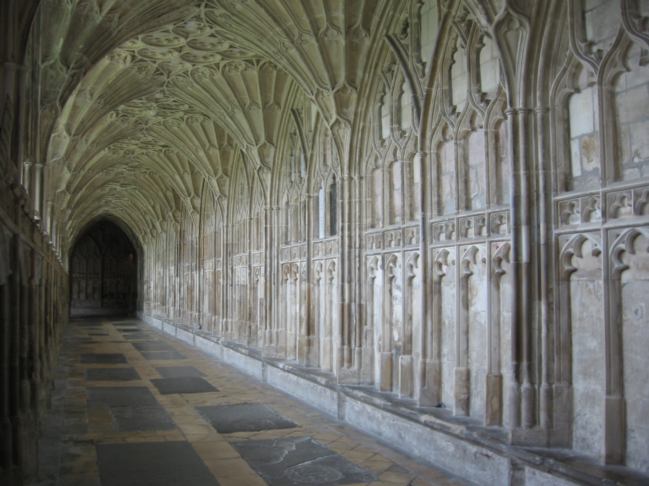 South cloister of Gloucester Cathedral, looking eastwards.